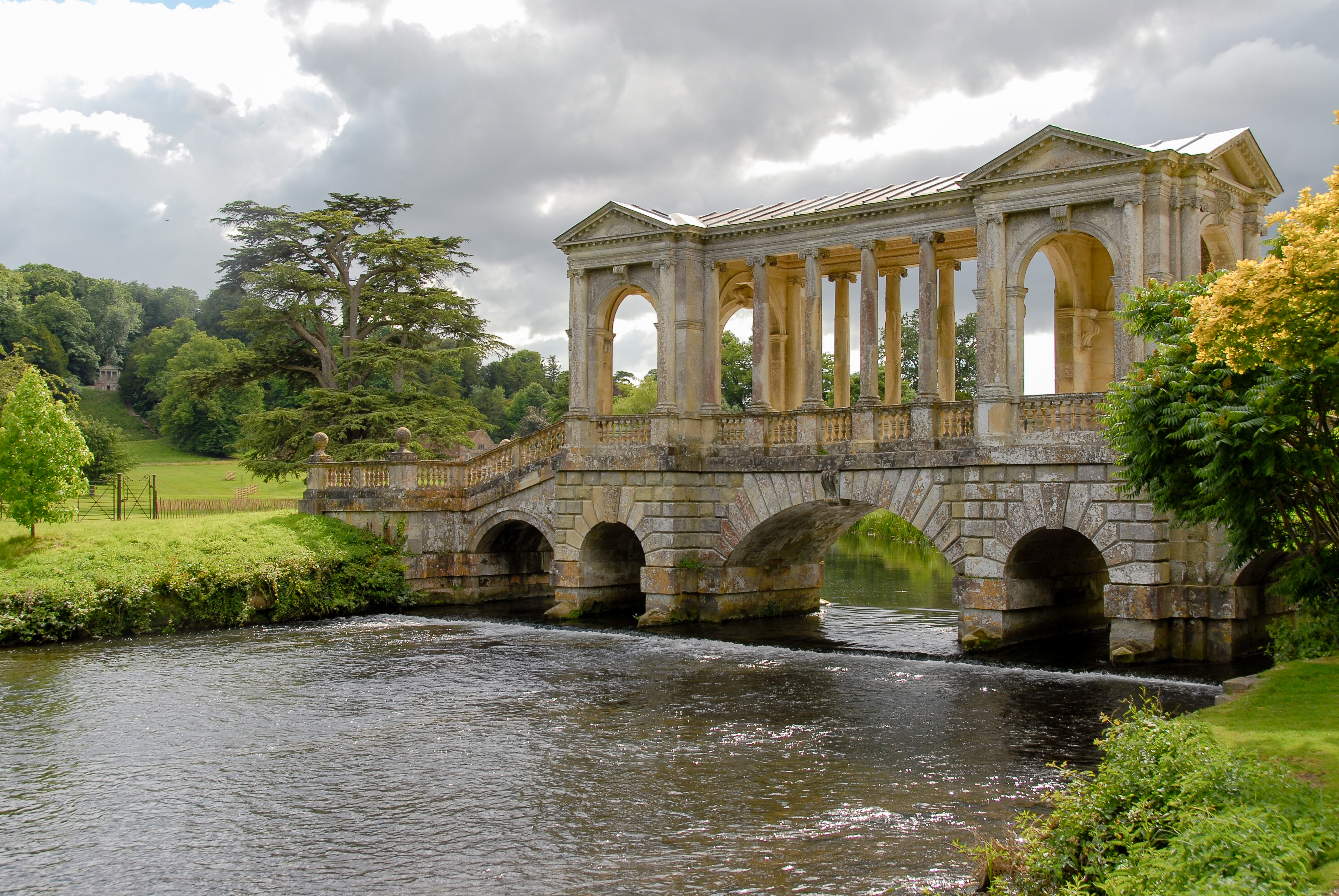 PALLADIAN BRIDGE Wikidata has entry Q17529297 with data related to this building.